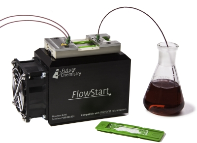 With the FlowStart, you can start working with flow chemistry today. It is a complete package for flow chemistry, including advanced fluidic interfacing, temperature controller, pumps and all connections and tubings.